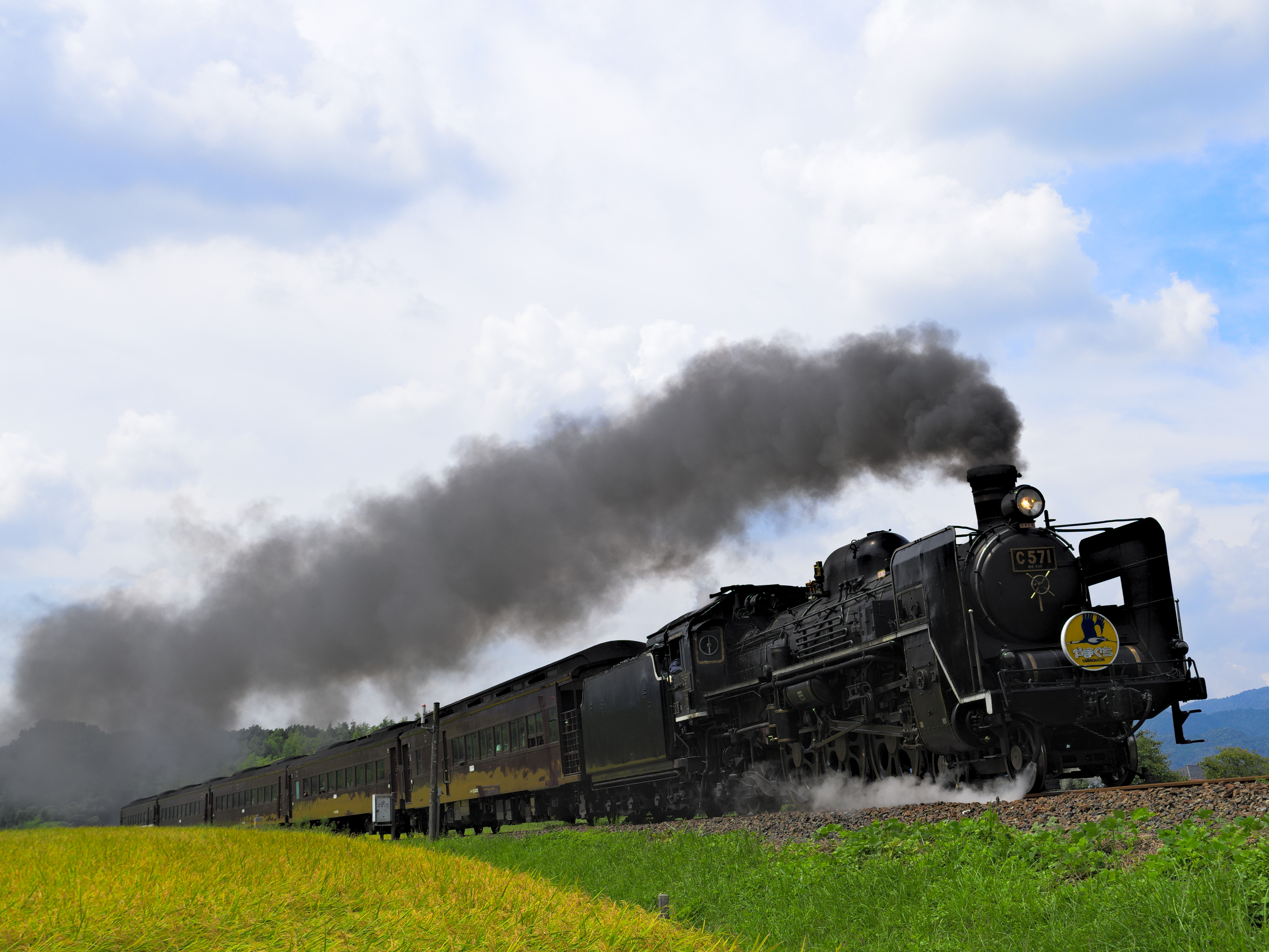 JR West Class C57 steam locomotive C57 1 hauling an SL Yamaguchi excursion service formed of new 35 series coaches between Niho and Miyano stations on the Yamaguchi Line in Yamaguchi Prefecture, Japan